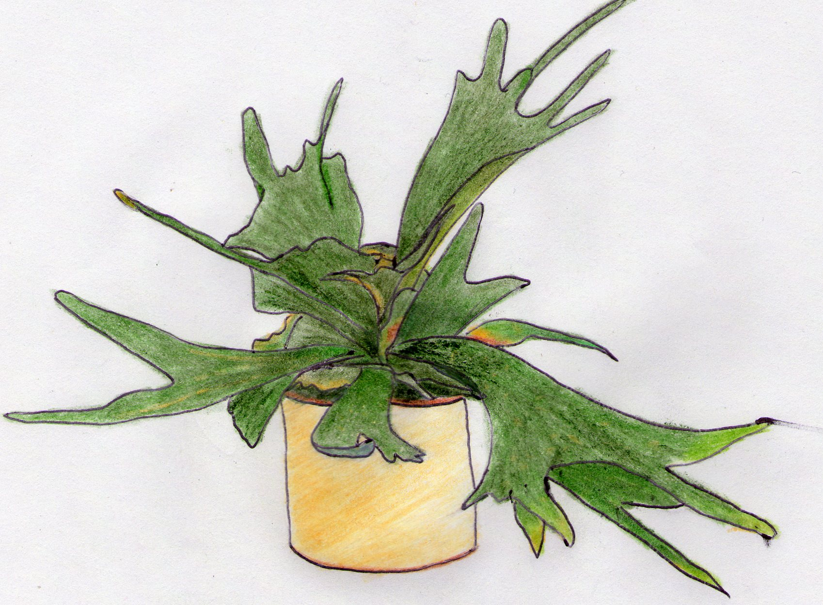 Platycerium bifurcatum